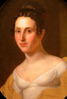 Depicted person: Theodosia Burr Alston – Daughter of Aaron Burr